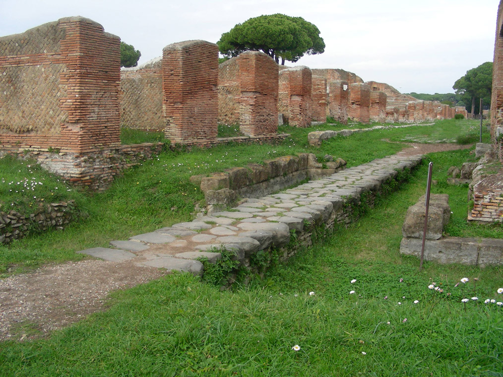 Ostia Antica, archaeological site, remains of Porta Marina